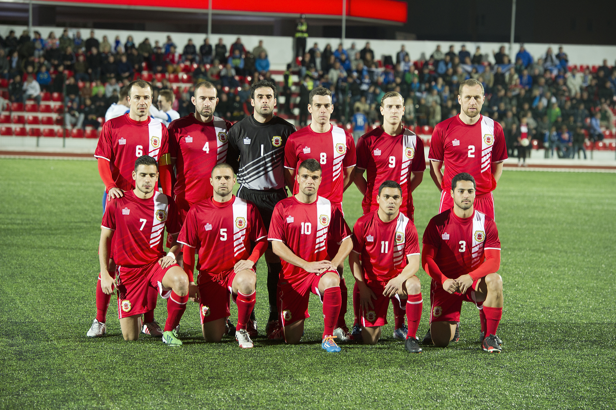 Gibraltar national football team about to play Estonia in friendly football match at the Victoria Stadium on 5 March 2014.